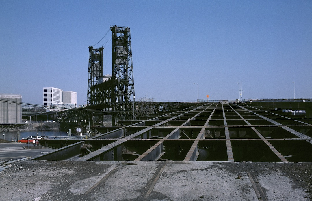 The Glisan Street ramp of the 1912 Steel Bridge, in Portland, Oregon, during a two-year project in 1984–86 to replace the bridge's deck and add light rail tracks and wires, for the first MAX line. On the Glisan ramp, a long section spanning Front Avenue (now Naito Parkway) was removed completely and replaced, and this photo shows that section during dismantling. At the bottom of the frame, long-abandoned narrow gauge streetcar tracks were still in place, in the portion of the ramp not being removed; those tracks were paved over (or removed) later in the 1984–86 rebuilding project. This ramp was not where light-rail tracks were added at that time, but light-rail tracks were laid on the Glisan Street ramp much later, during construction of a different light rail line, in 2008.